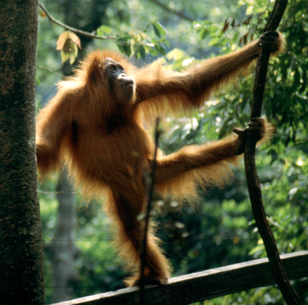 dave 59 took it myself at the Orang rehabilitation centre, Buket Lawang ,Sumatra.